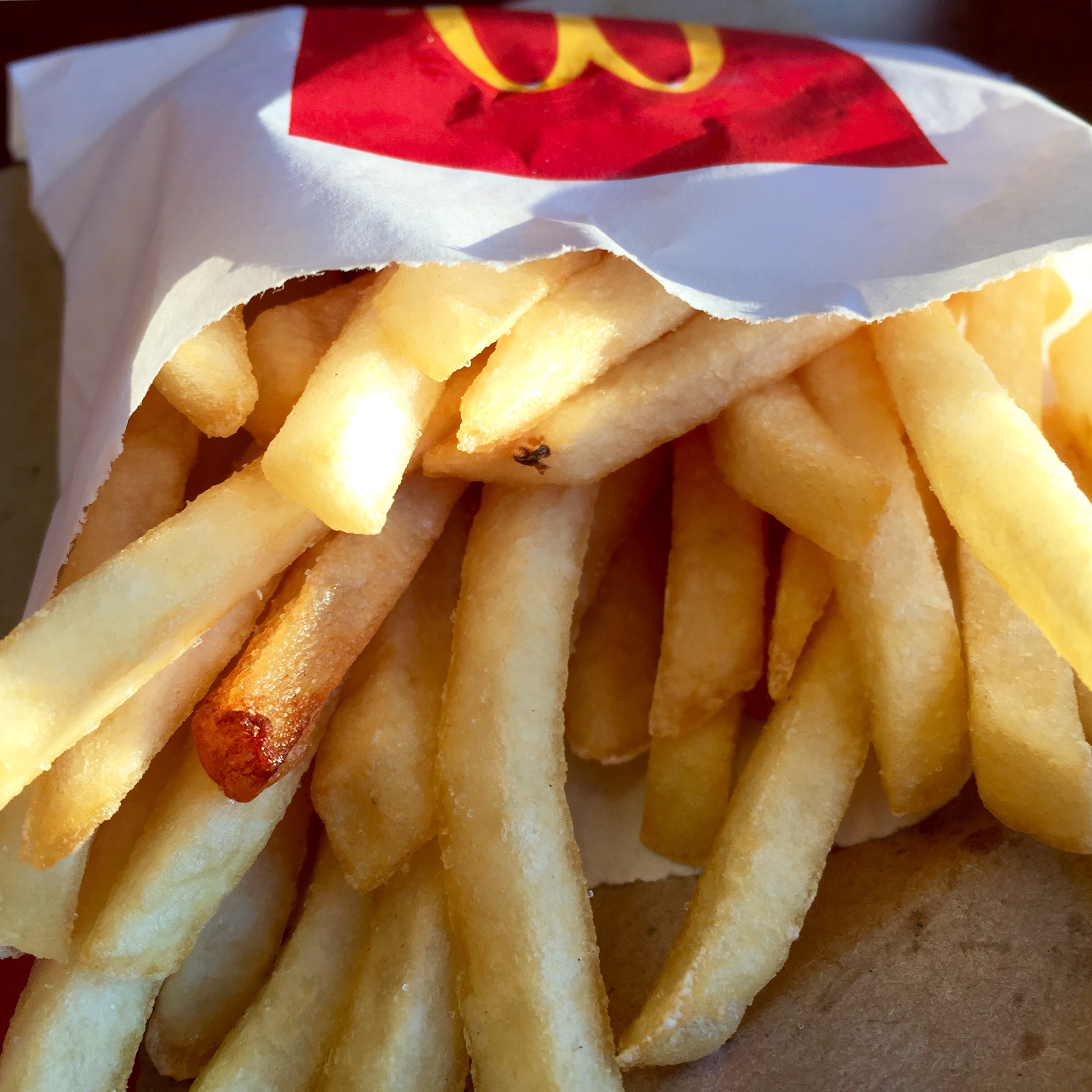 McDonald's small fries